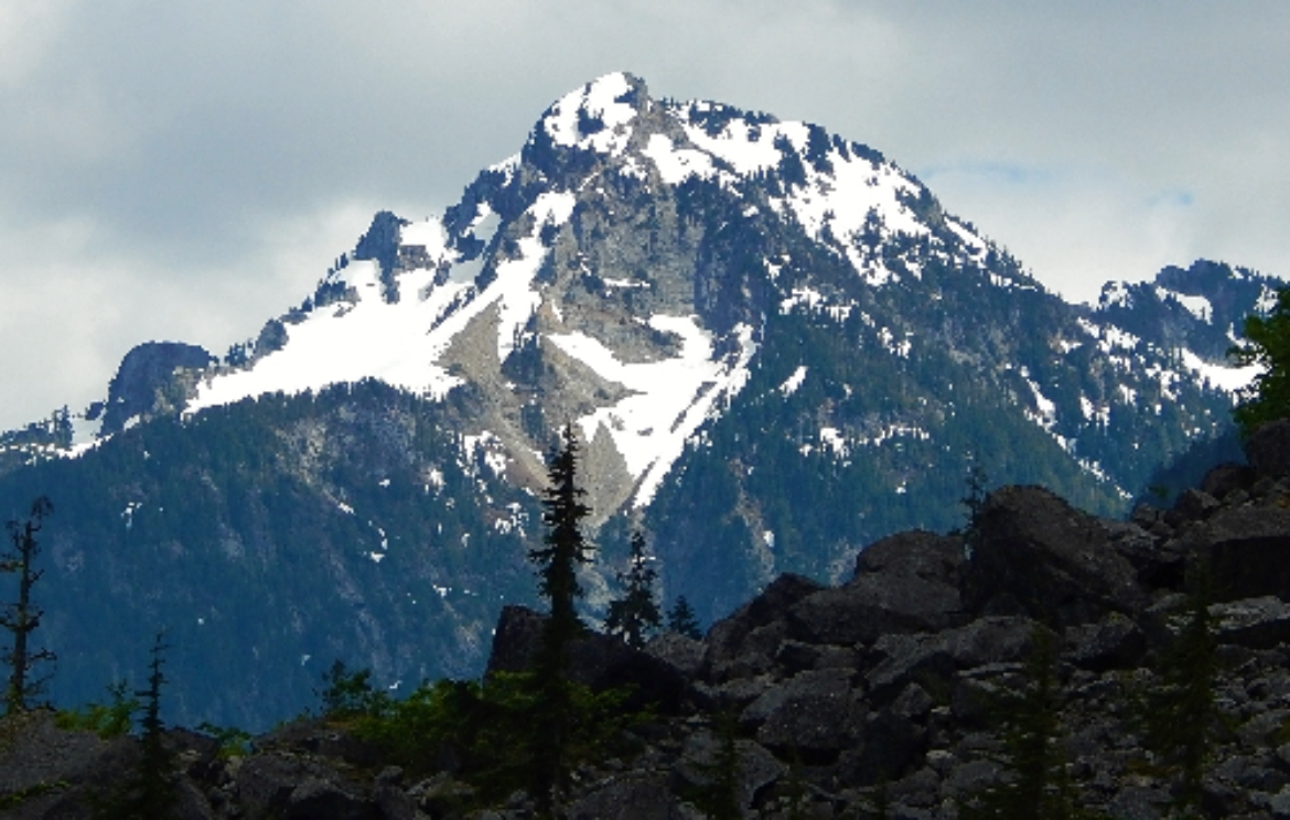 Sheep Mountain 6166' North Cascades